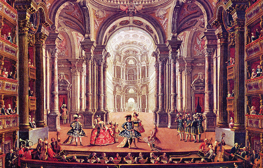 The Teatro Regio in Turin, oil on canvas (detail)